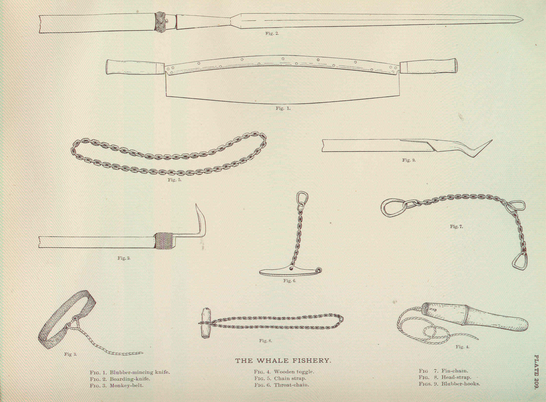 Whale Fishery Fig.1. Blubber-mincing knife . Fig.2. Boarding-knife . Fig.3. Monkey-belt . Fig.4. Wooden toggle . Fig.5. Chain strap . Fig.6. Throad-chain . Fig.7. Fin-chain . Fig.8. Head-strap . Figs.9. Blubber hooks . Subject: Whaling--Equipment and supplies Tag: Aquatic Mammals